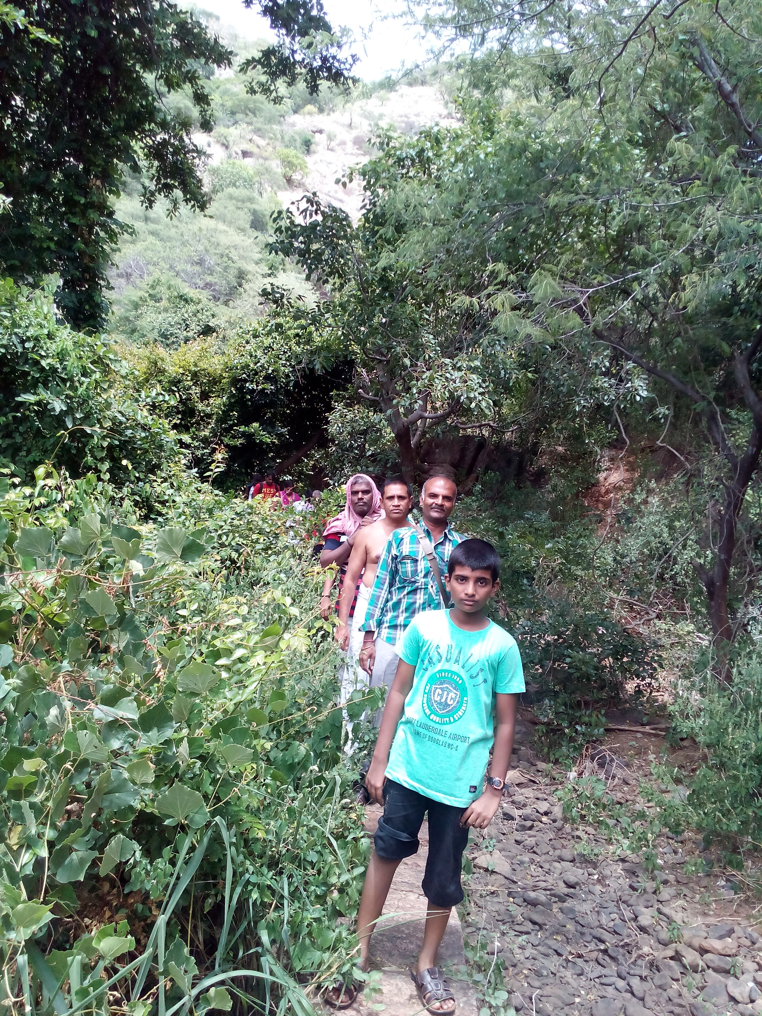 வனப்பகுதியில் உள்ள குறுகலான பாதை